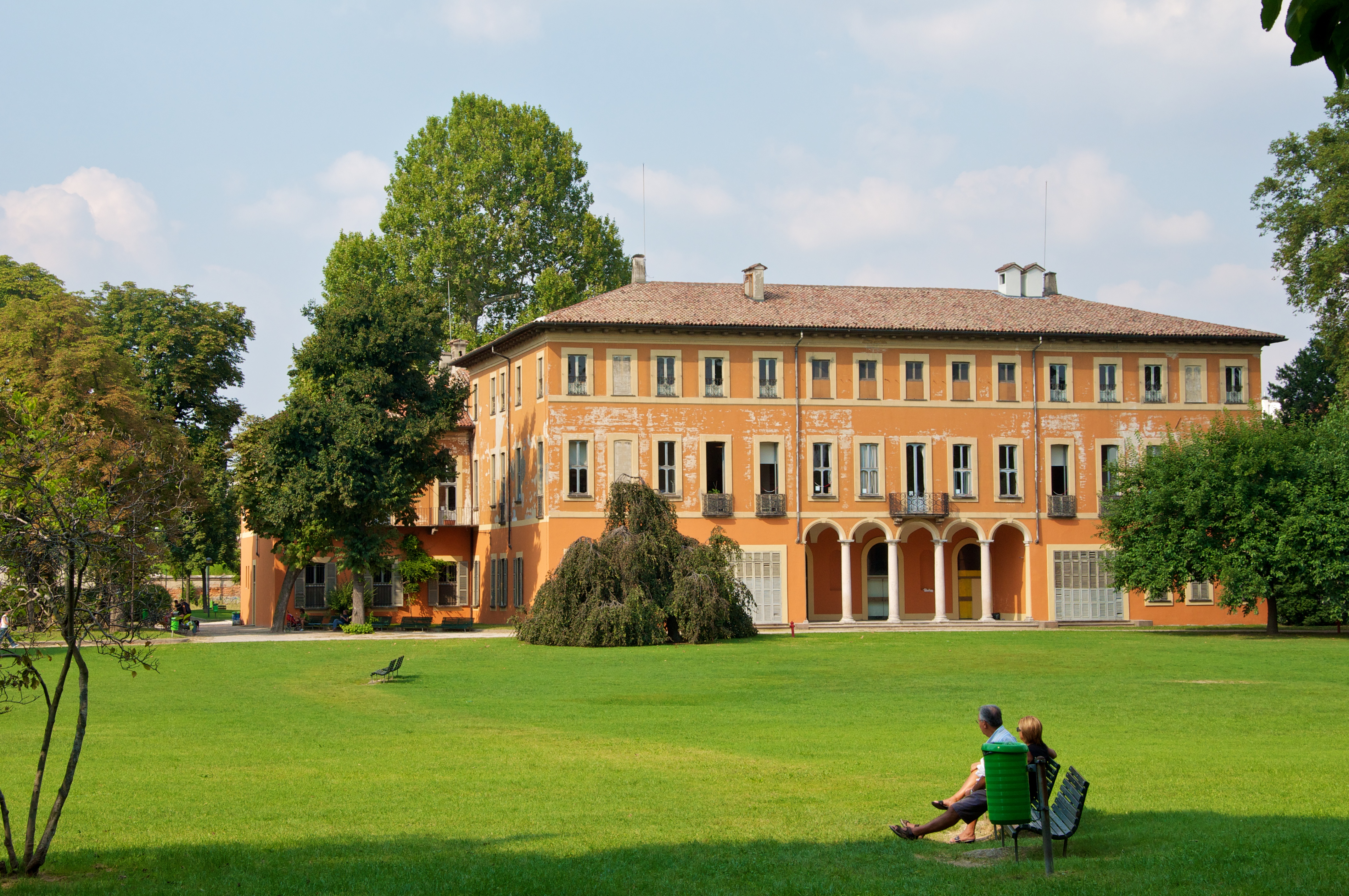 Villa Litta in Milan